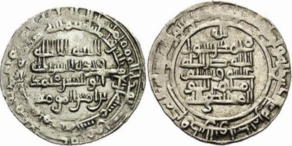 Kekhalifahan of Baghdad - Dirham of al Al-Mustakfi 334h